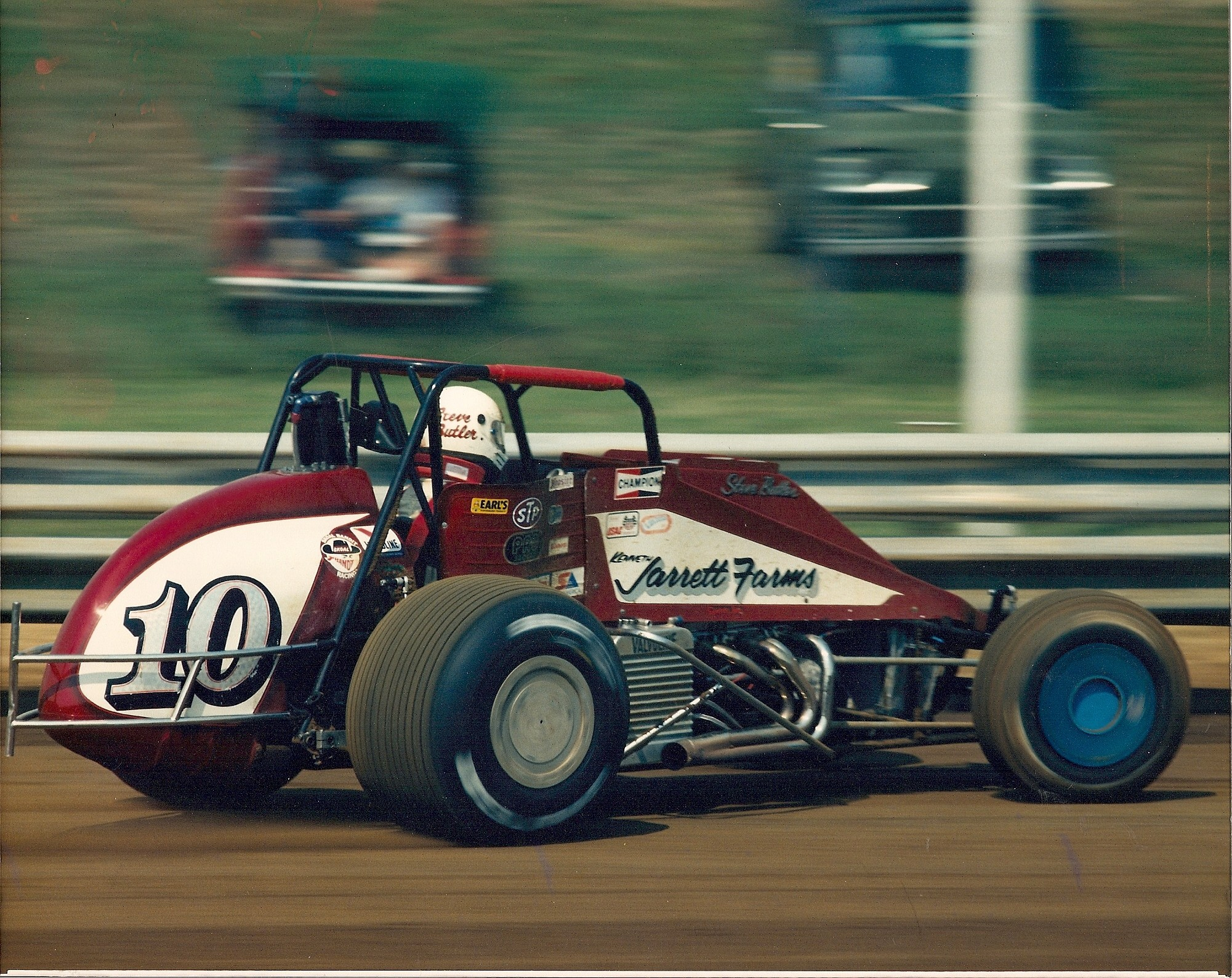 Steve Butler driving the Jarrett Farms Silver Crown car at the Illinois State Fairgrounds. Shot is taken from the outside of turn 3 during practice.